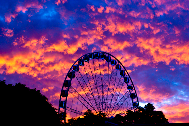 The wheel of Brisbane